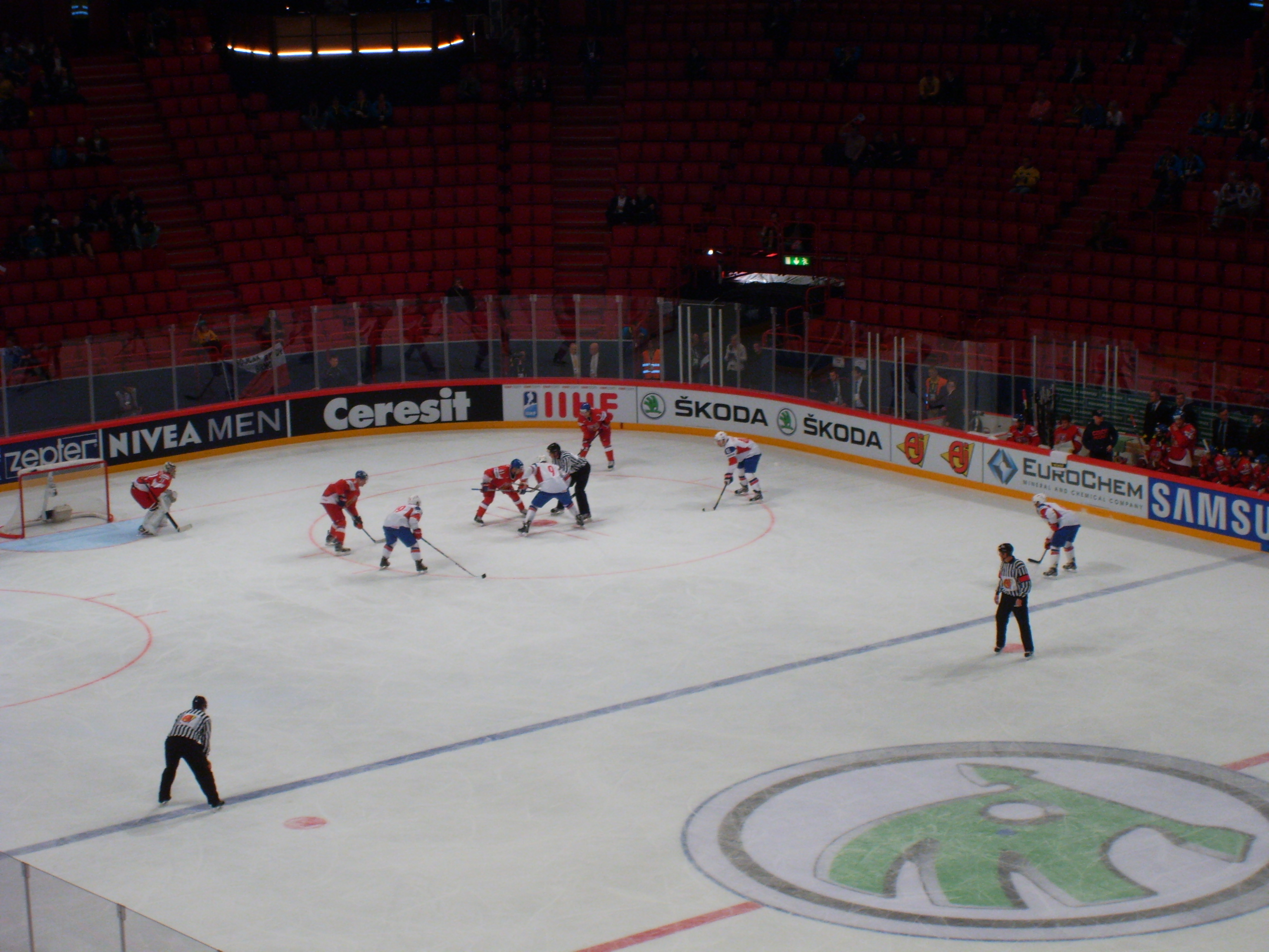 Czech Republic vs Norway during 2013 IIHF World Championship.